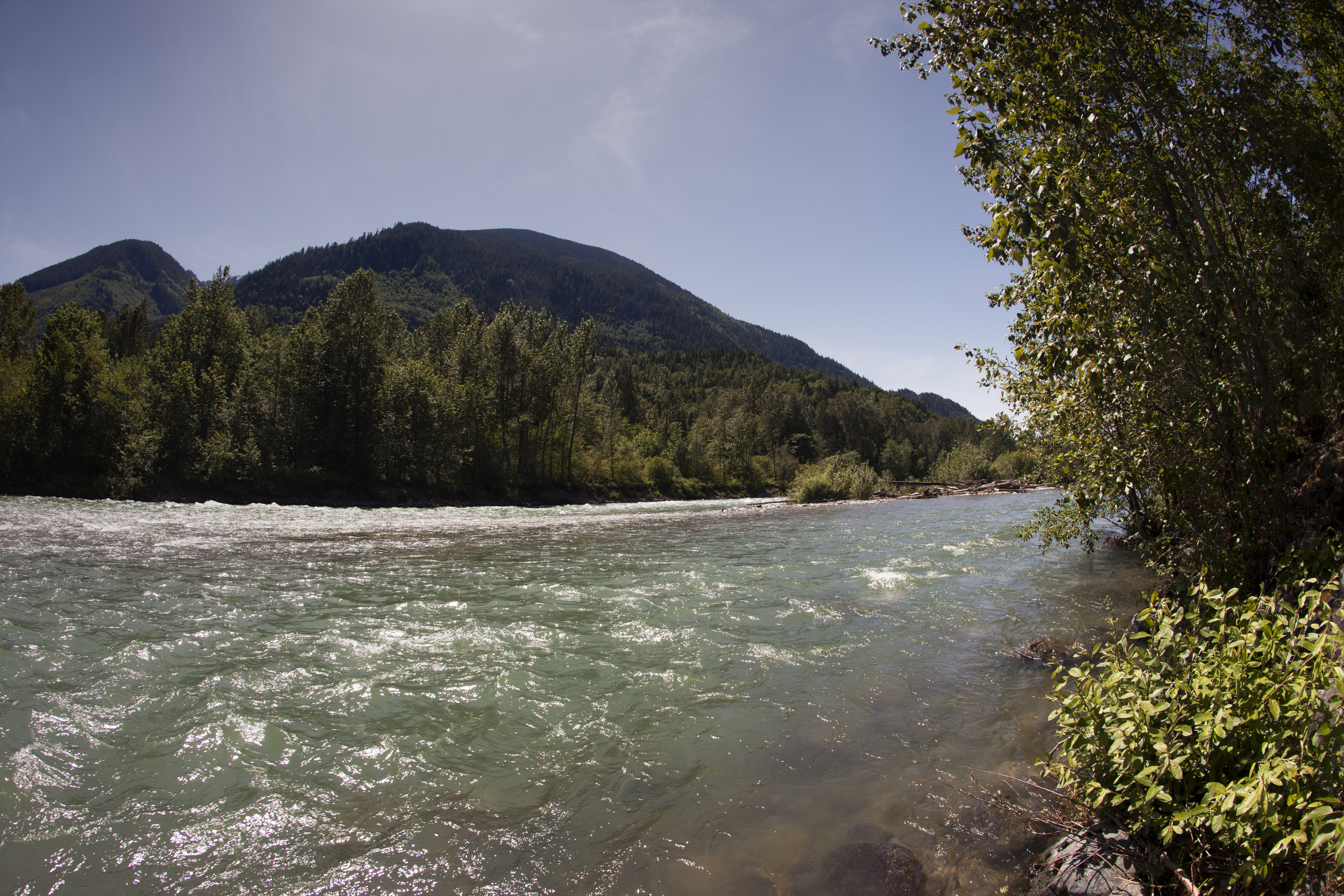 Chilliwack River Provincial Park. British Columbia, Canada. Latitude: 49.078273, Longitude: -121.877804 Altitude: 85m This photo was taken in a protected area in Canada, Wikidata item Chilliwack River Provincial Park (Q5099102)